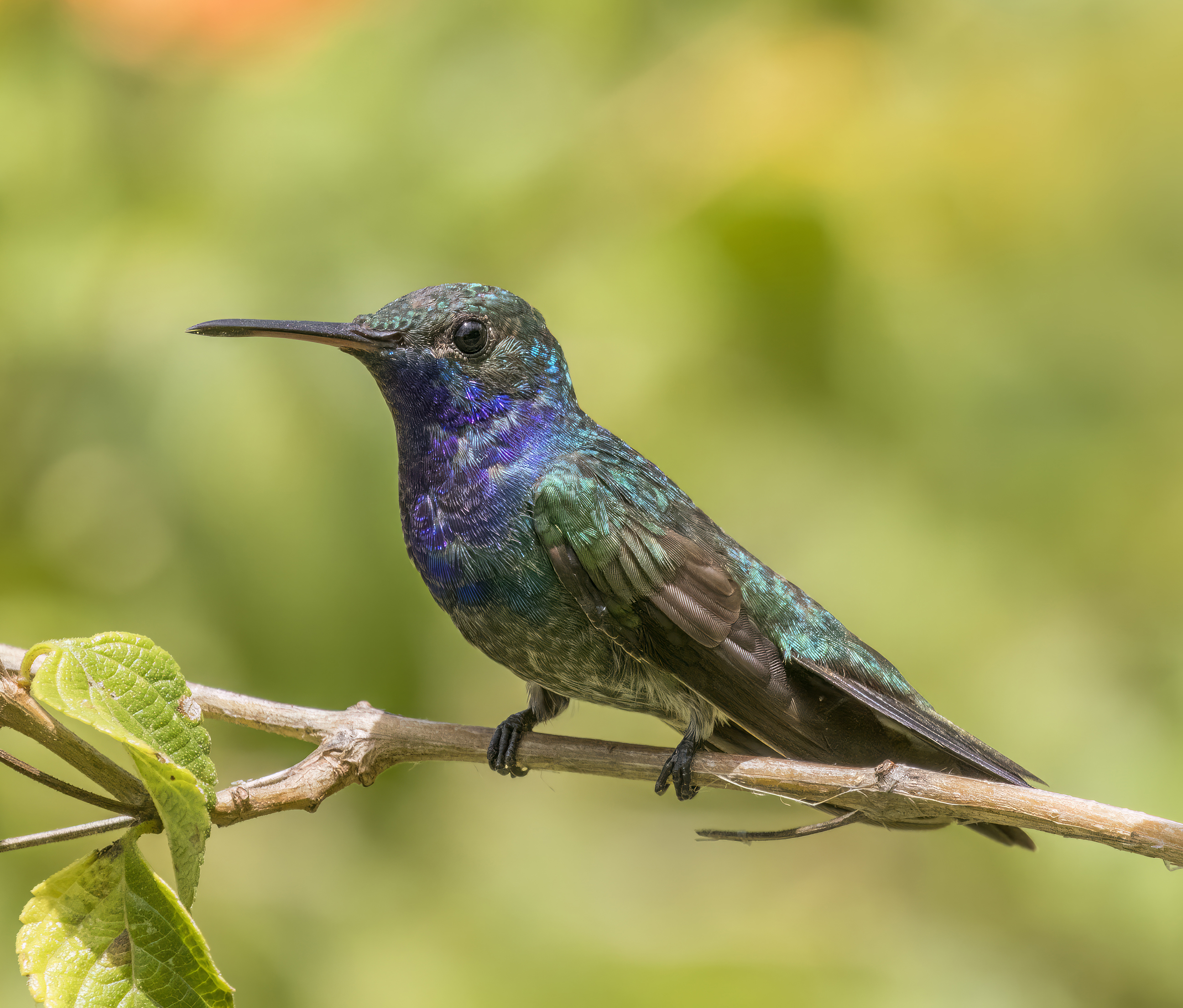 Sapphire-throated hummingbird (Lepidopyga coeruleogularis coeruleogularis) male, Biodiversity Museum Gardens, Panama